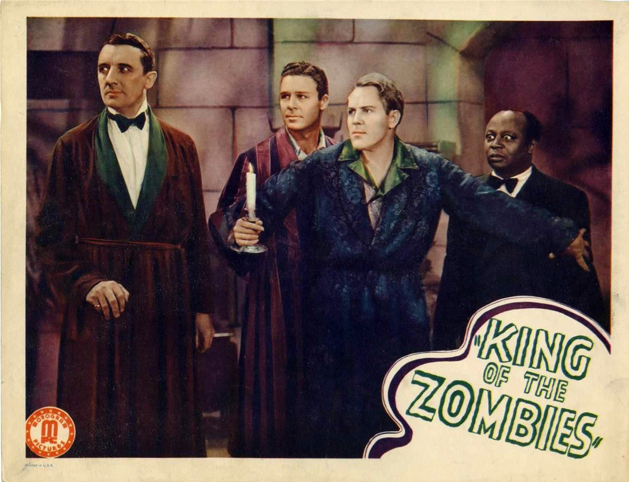 Lobby card for the American film King of the Zombies (1941).